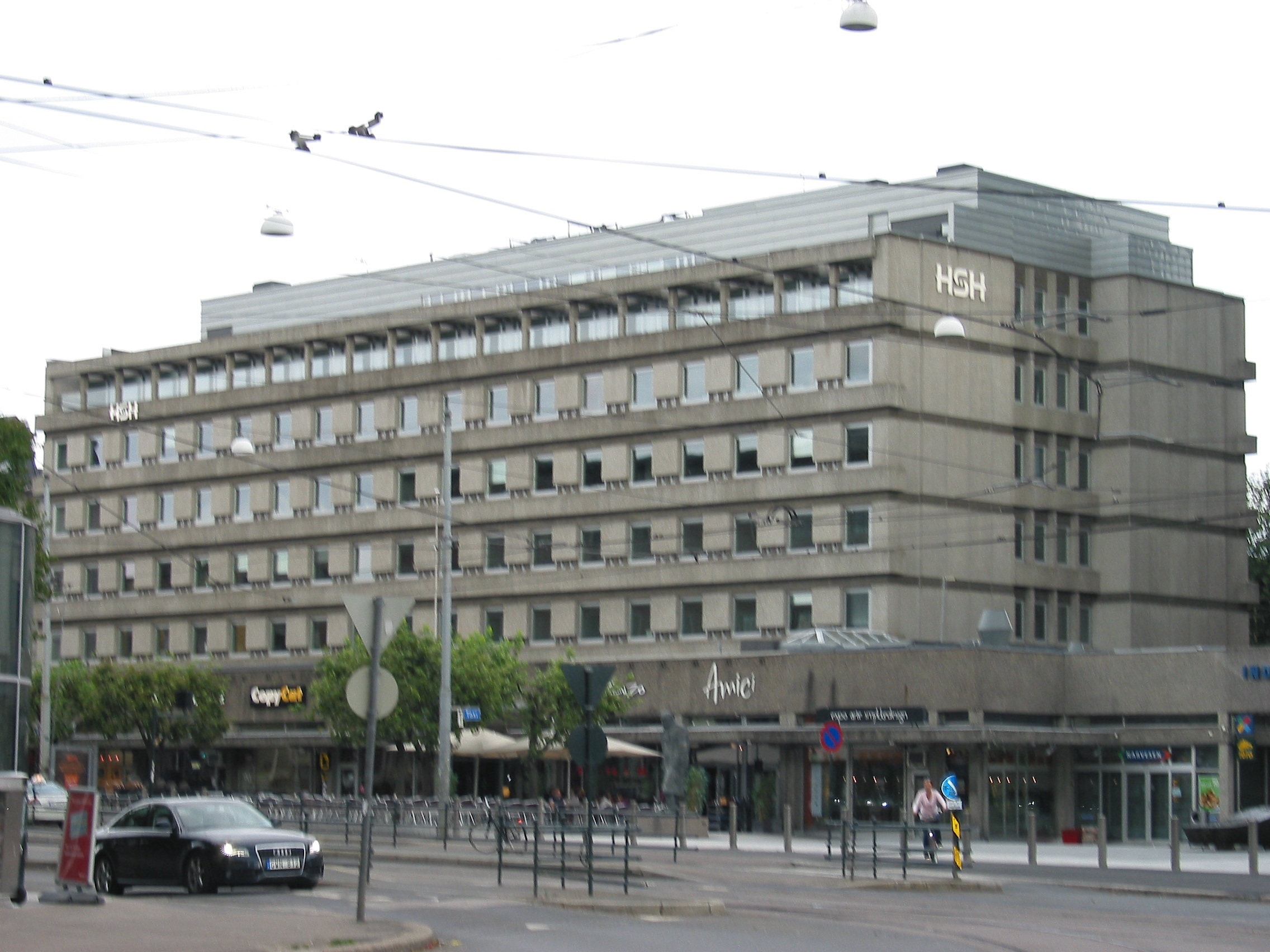 Headquarters of the Federation of Norwegian Commercial and Service Enterprises